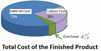 ಮುಕ್ತ ಉತ್ಪನ್ನದ ವೆಚ್ಚದ ಚಿತ್ರ